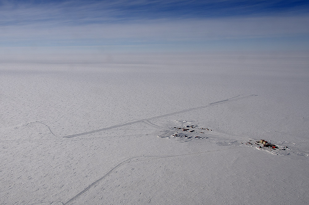 French-Italian research base Concordia Station at Dome C, one of the Antarctic Ice Sheet’s highest points.